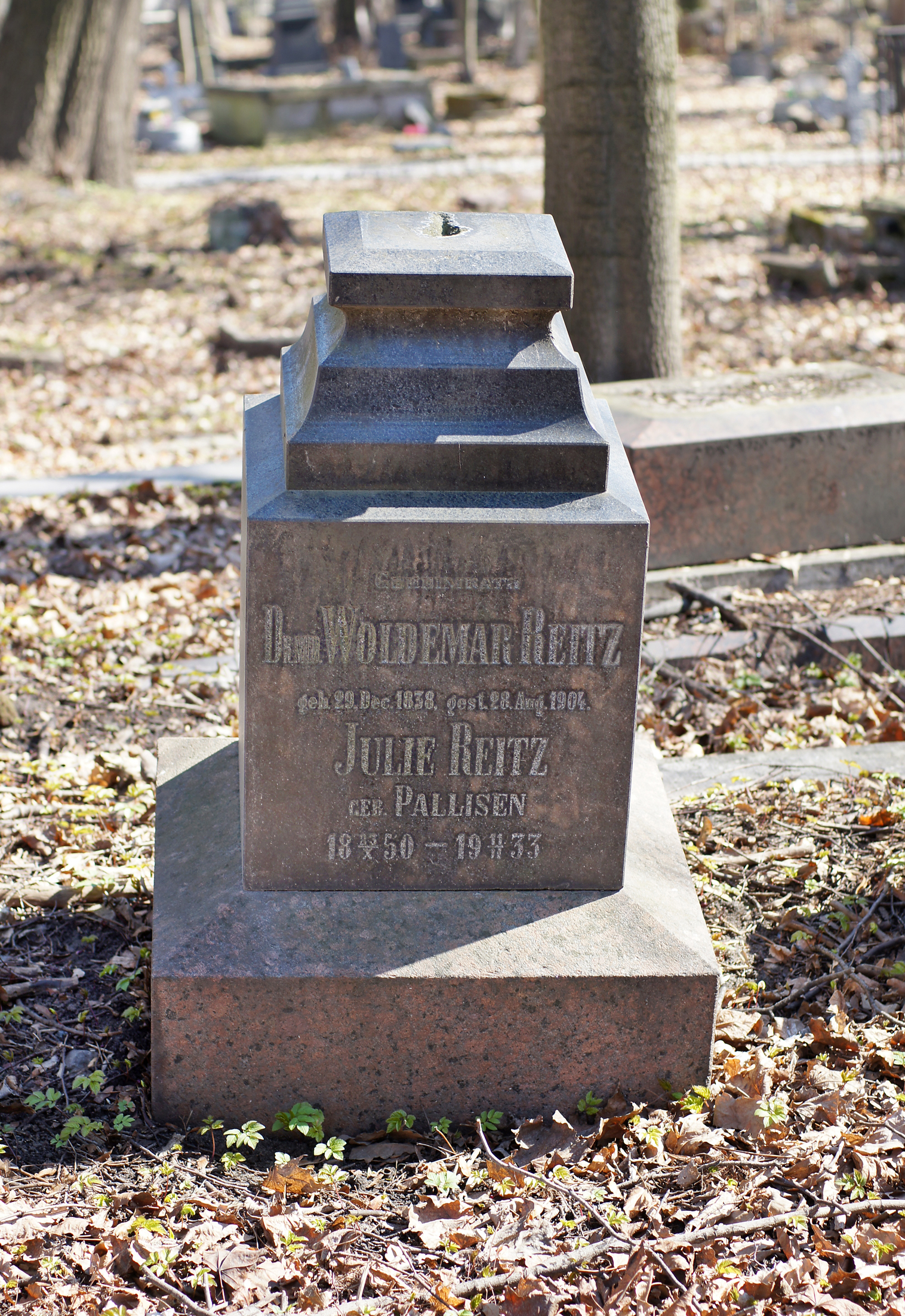 Thomas Woldemar von Reitz MD